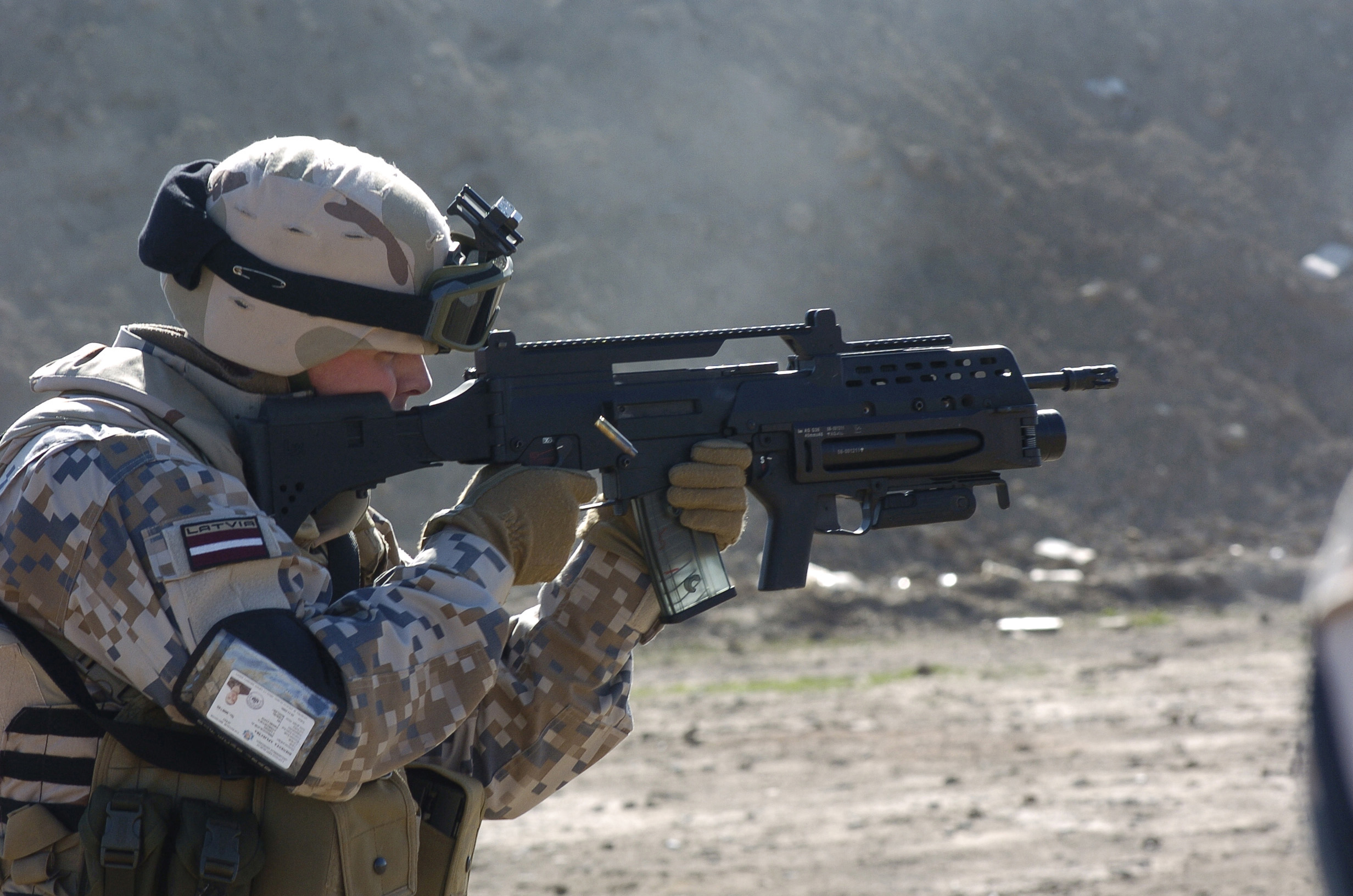 A Latvian army soldier fires from a standing position during a live-fire exercise Feb. 12, 2007, near Ad Diwaniyah, Iraq.